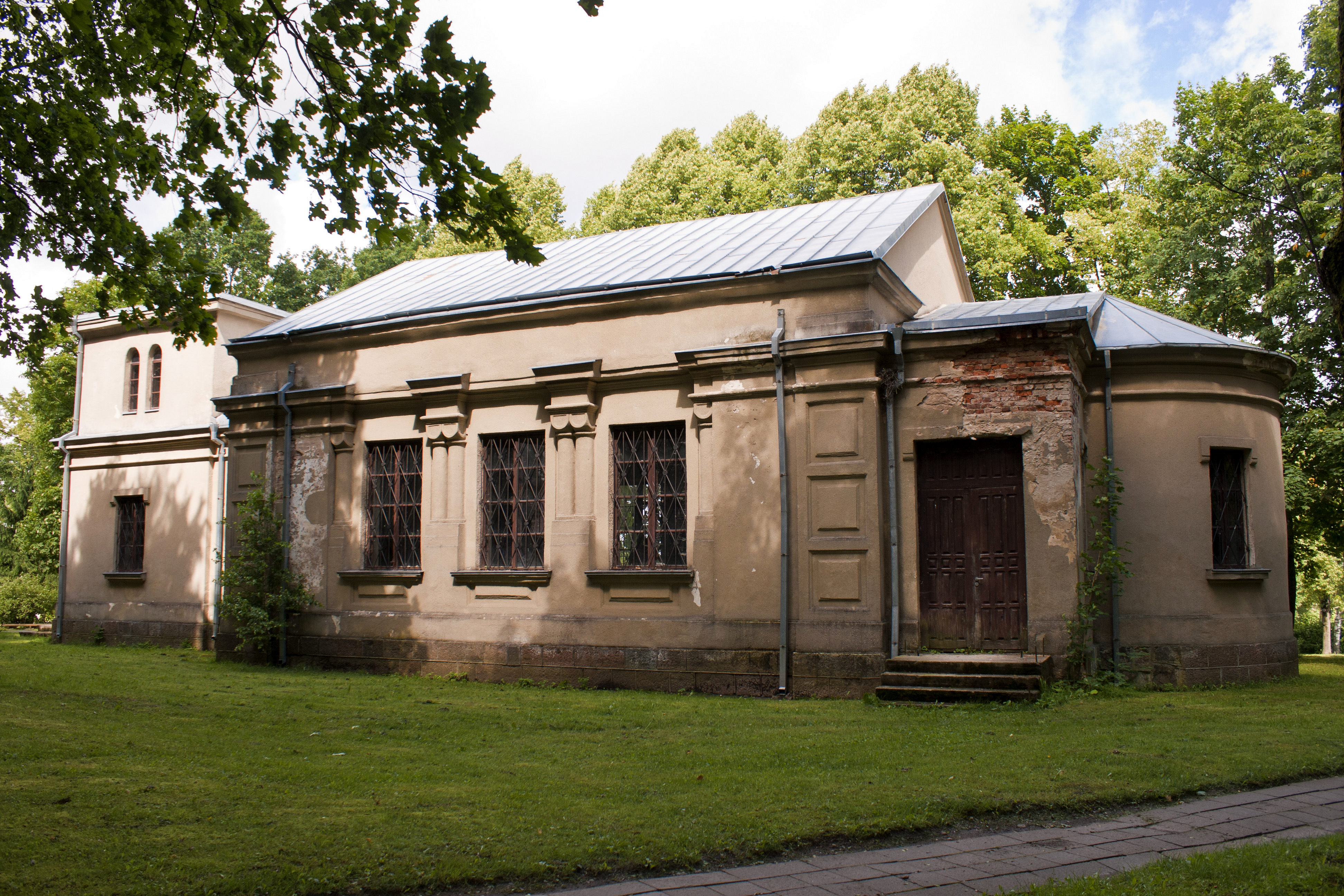 Skuodas abandoned church